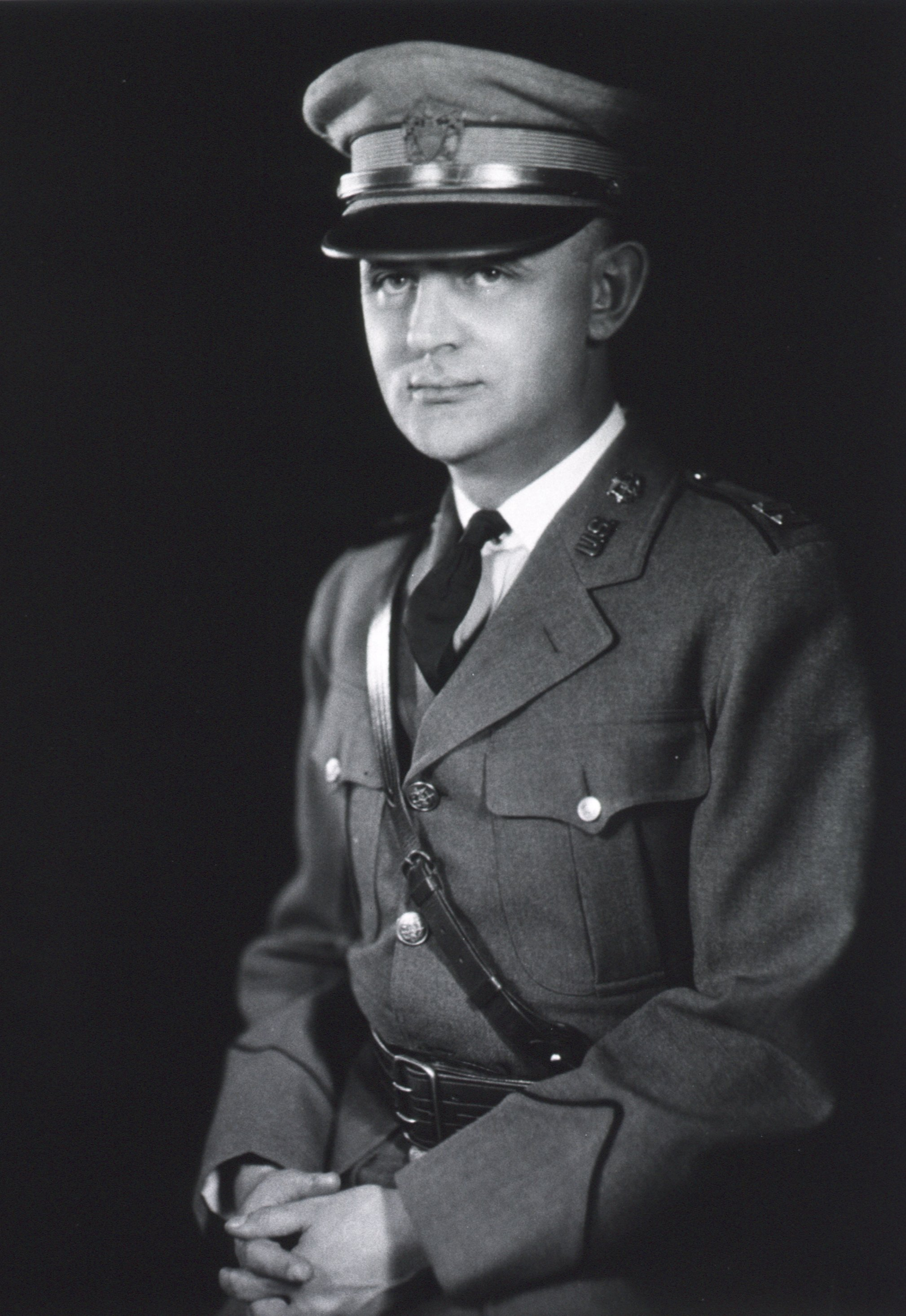 Photograph of John Friend Mahoney.